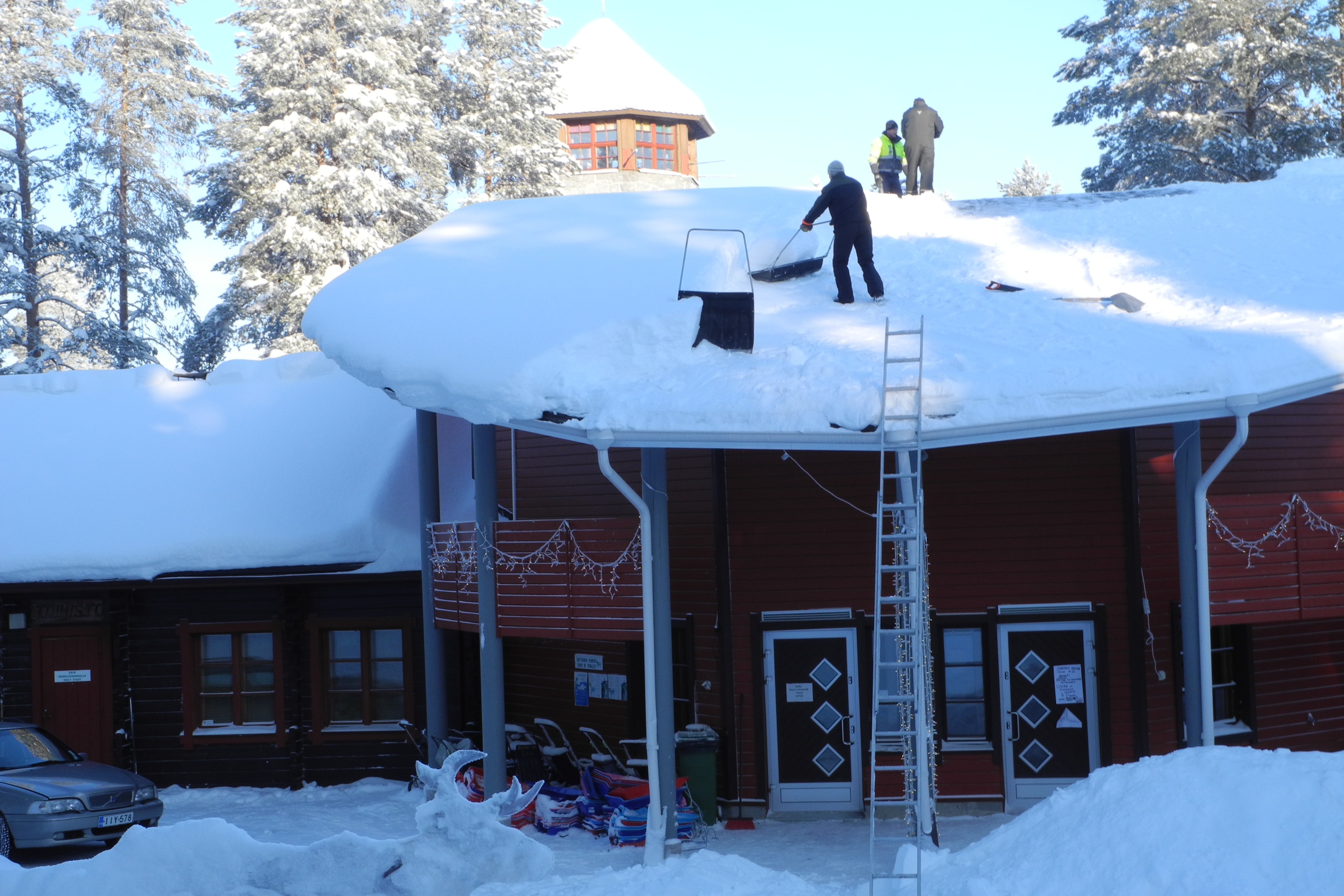 Snow removed from the roof of Ranua Zoo main building in Ranua, Finland.